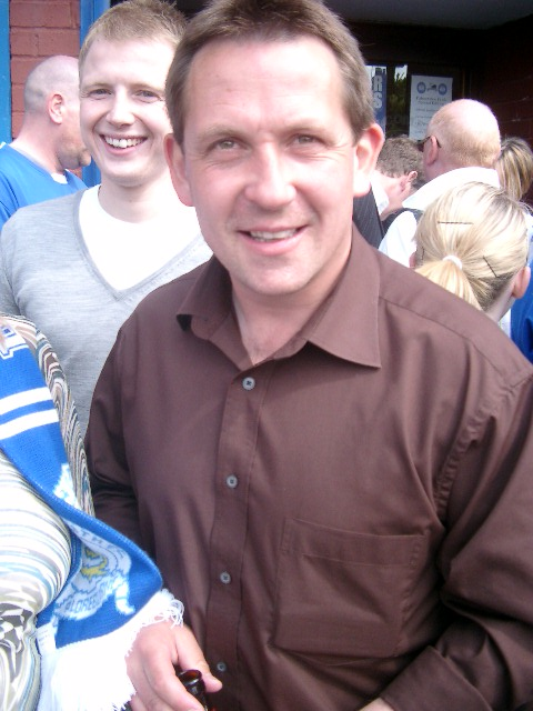 Billy Dodds, Palmerston Park after the Queen of the South cup final celebration